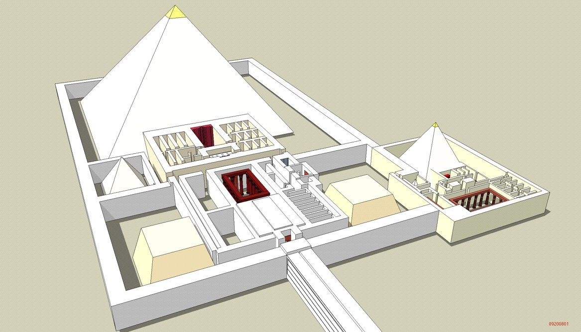 Reconstruction drawing of the pyramid complex of Djedkare Isesi and his unknown queen